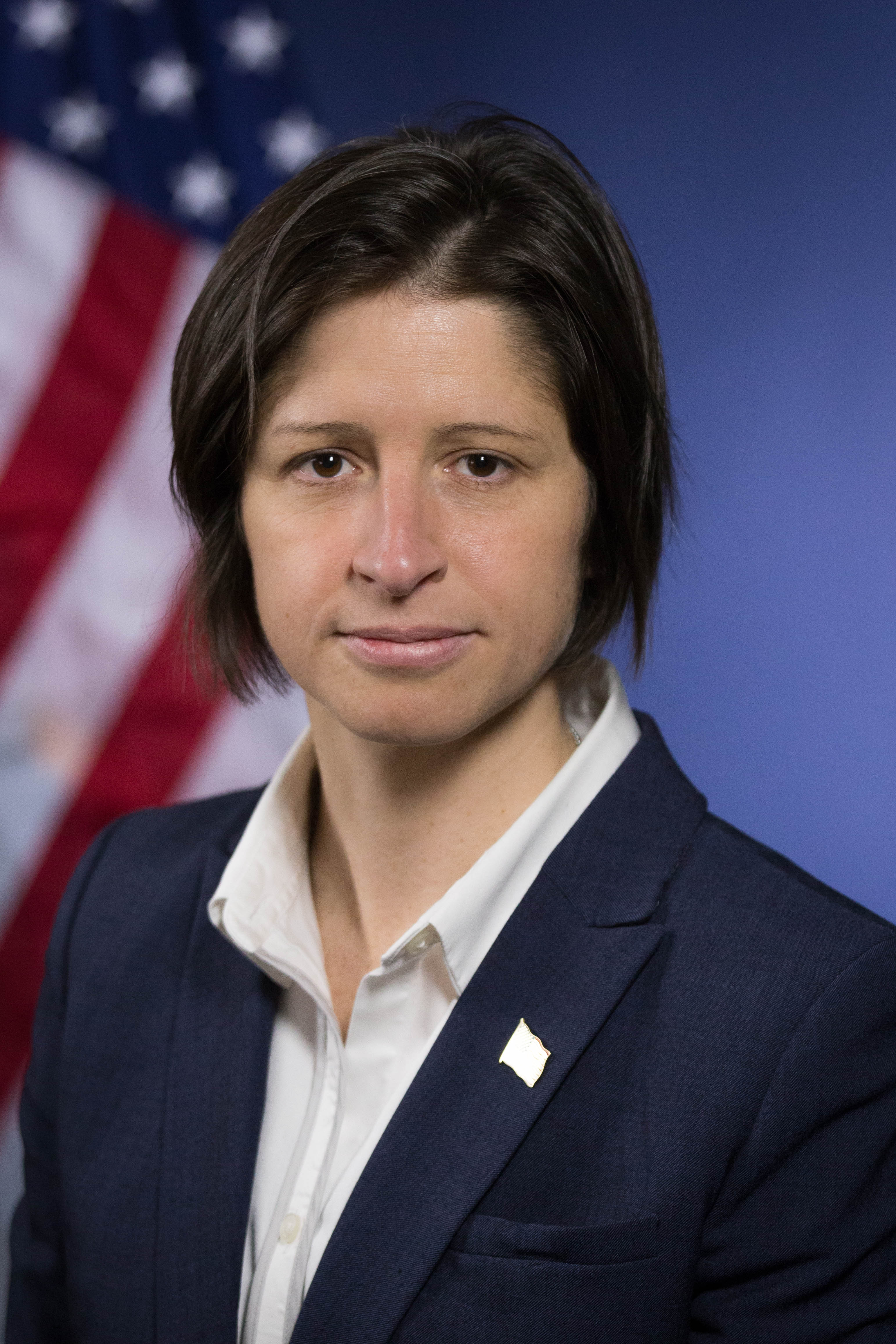 Christina E. Nolan official photo